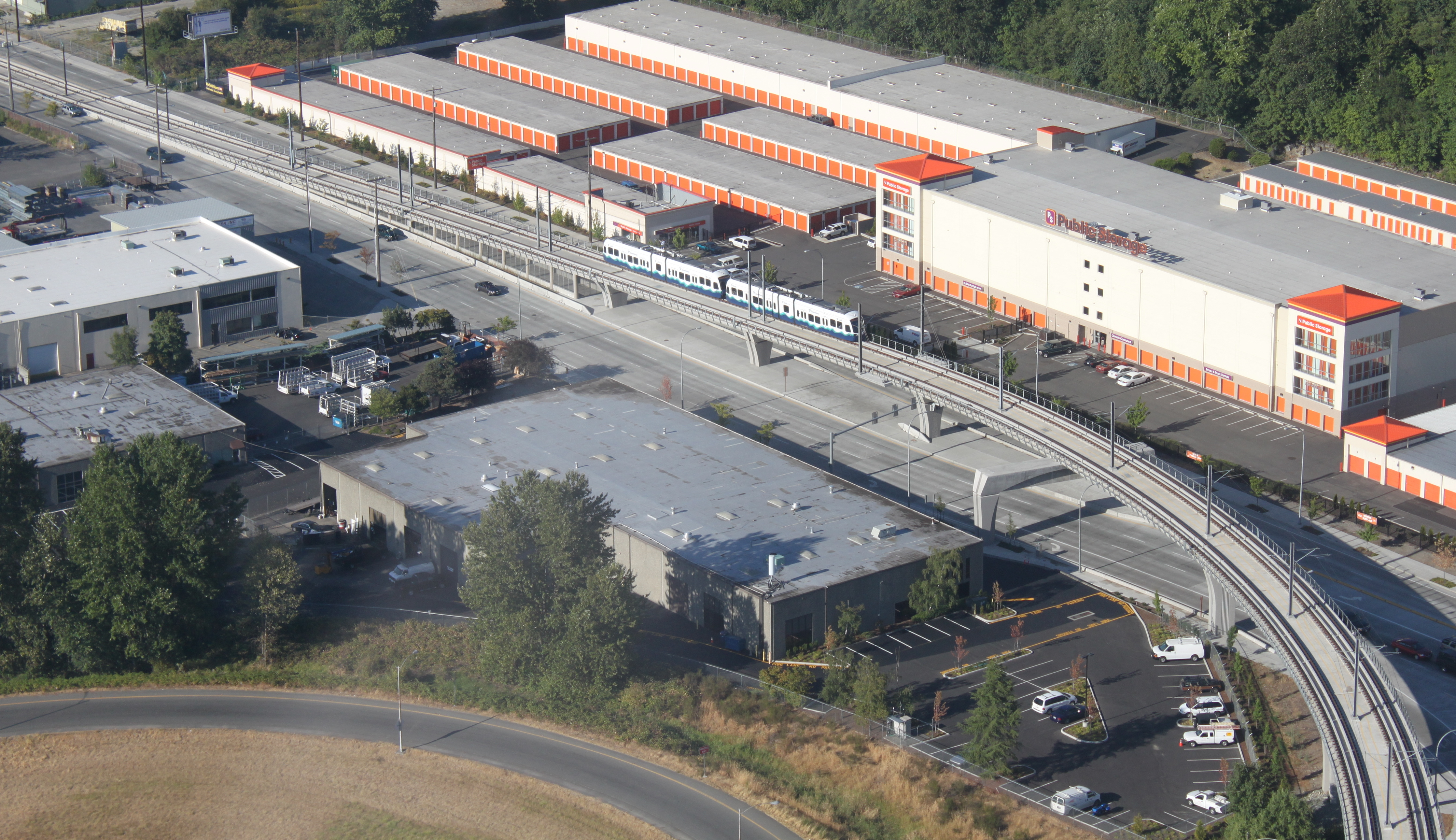 The Central Link of Seattle's Light Rail system as it climbs a grade from surface to an elevated track over Martin Luther King Way, S.